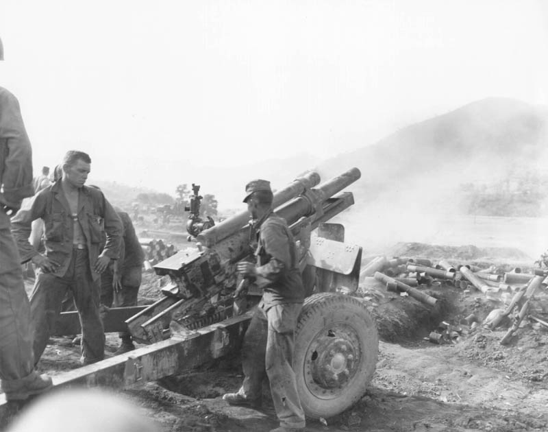 SC344638 - 105-mm howitzer in action against the Communist-led North Korean invaders.